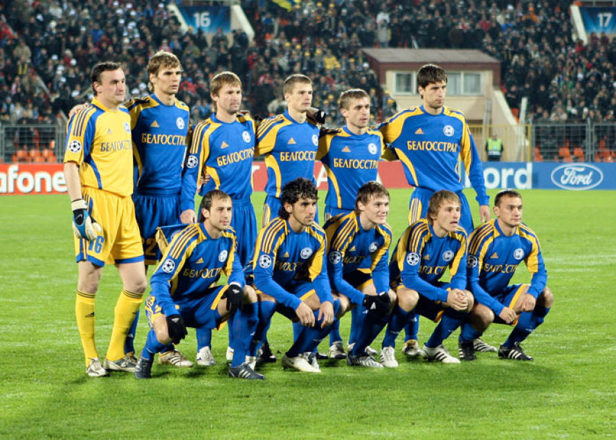 FC BATE in UEFA Champions League group round match against FC Zenit St. Petersburg